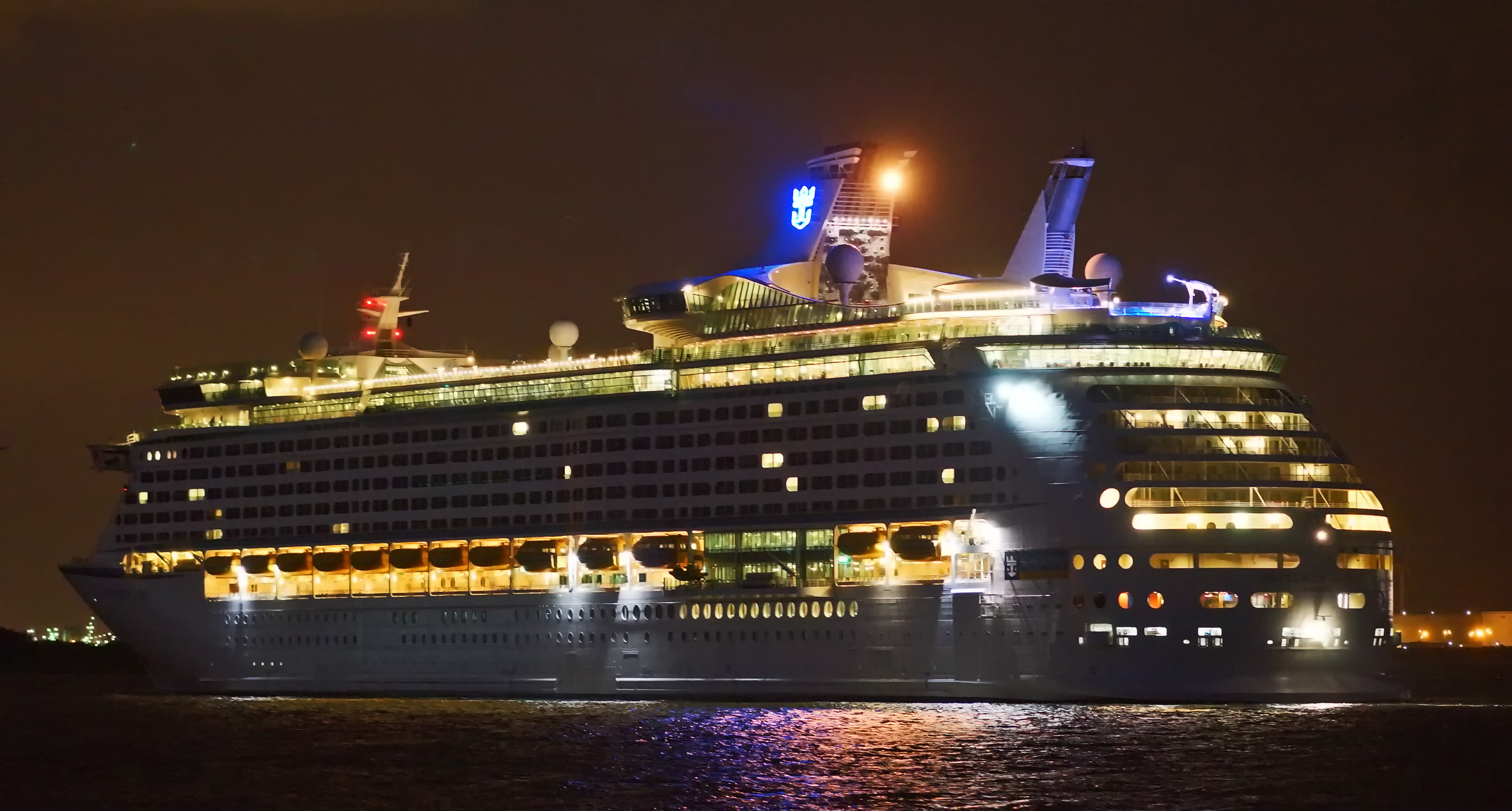 Cruise ship Explorer of the Seas, Nieuwe Waterweg 20-5-2015